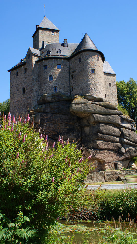 Castle Falkenberg